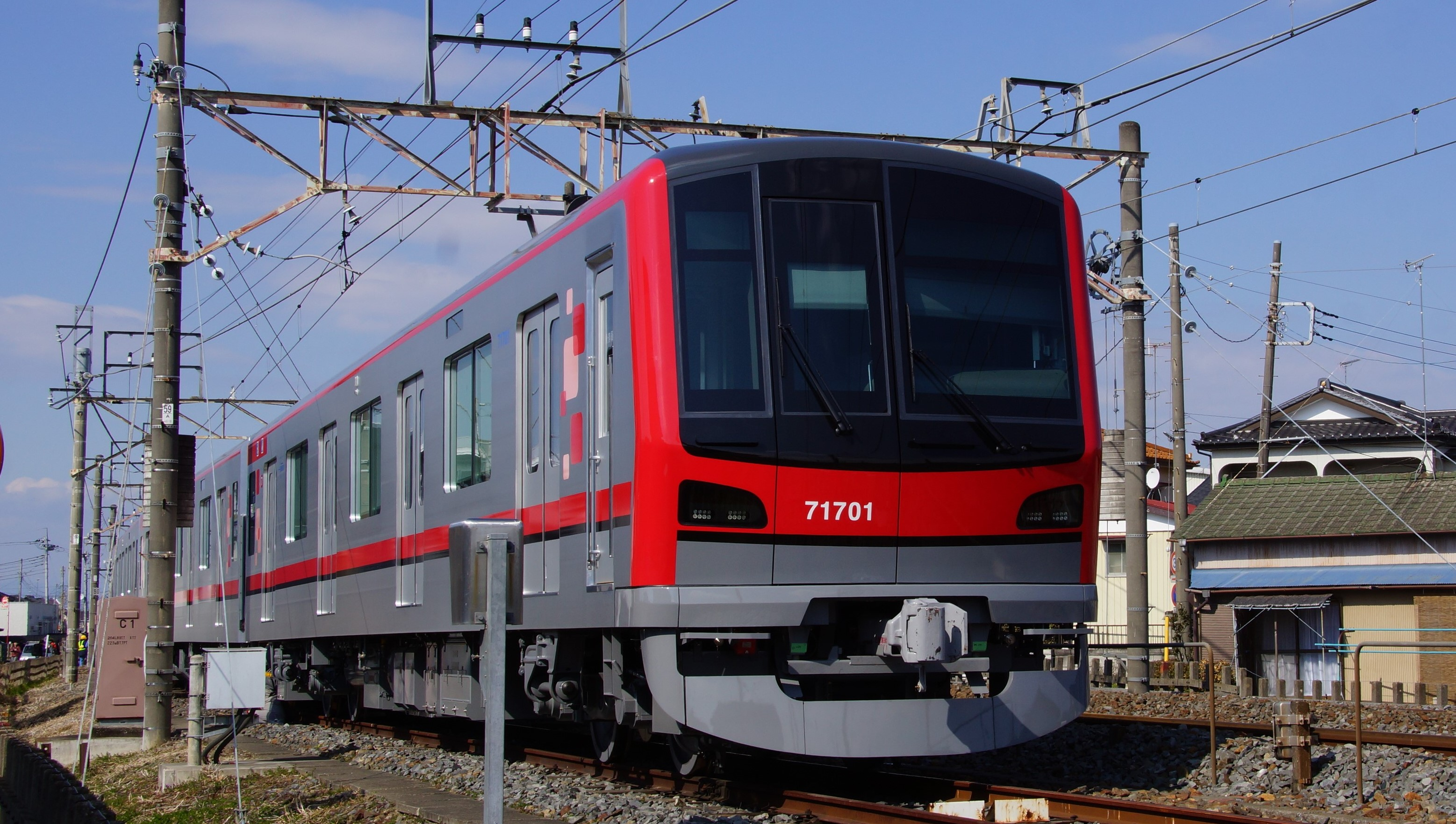 Tobu 70000 series EMU set 71701 stabled near Hanyu Station in Saitama Prefecture on delivery from Kinki Sharyo in Osaka